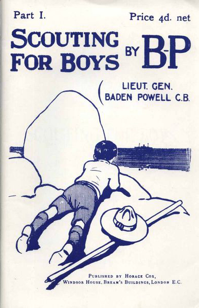 Front cover of the first part of Scouting for Boys by Robert Baden-Powell, published in January 1908. Illustrations by Baden-Powell himself. Printed by Horace Cox, printer to Cyril Arthur Pearson. see wikipedia - Scouting for boys